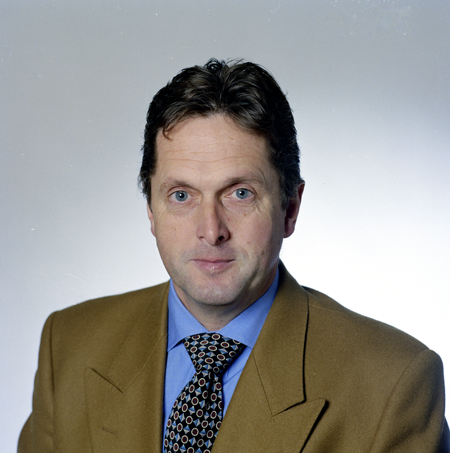 Gerard Arninckhof in 1992